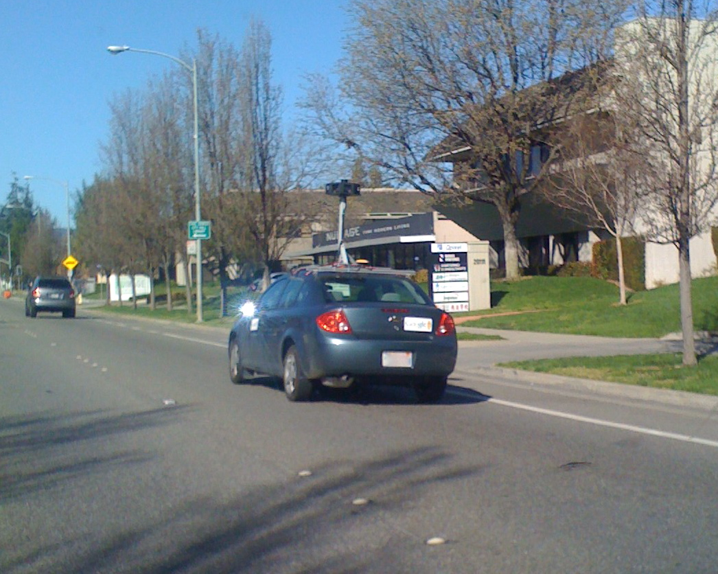 The Google car, kitted out with cameras and geolocating equipment, as used to provide the "Street View" of locations. It is taking rapid, periodic photographs of the streets in eight directions simultaneously. This one was photographed (badly!) on Steven's Creek in Cupertino, California.